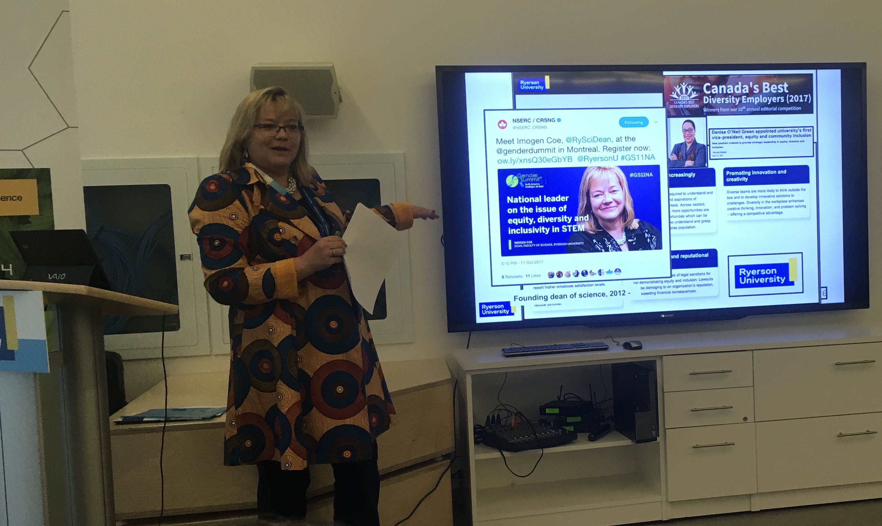 Ryerson University Dean of Science, Professor Imogen Coe releases the report she led, on Equity, Diversity and Inclusivity in STEM and higher education, in October 2017.